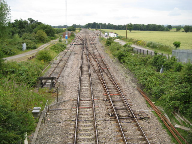 Woodborough Sidings This is the site of the now dismantled Woodborough station built by the former Great Western Railway on their main line between London and the South West. The station opened in 1862 and closed in 1966, a victim of the Beeching cuts, which also saw the line to Devizes closed. Although Inter City 125s thunder through here now the sidings are still in use.